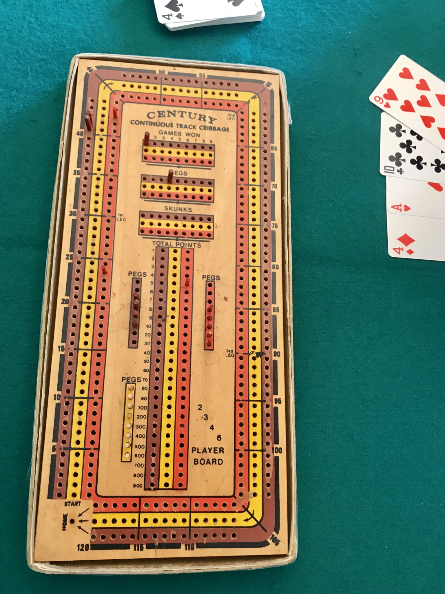 Cribbage board